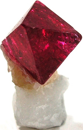 Calcite, Spinel Locality: Mogok, Pyin Oo Lwin District, Mandalay Division, Burma (Myanmar) (Locality at ) Size: thumbnail, 1.5 x 1.1 x 1 cm Spinel on Calcite Without question, this vivid red, gemmy, octahedron of spinel on white calcite, is a world class competition thumbnail. Most Mogok spinels are simply loose singles, off matrix. This one, carefully excavated from a miniature at Bill Larson's lab by Irv, is unrepaired and remains on matrix due to the careful prep work. You almost never see this quality of crystal , aside from the additional aesthetics of it being on matrix! The well formed , complete crystal measures .8 cm across. It is truly a thing of beauty.